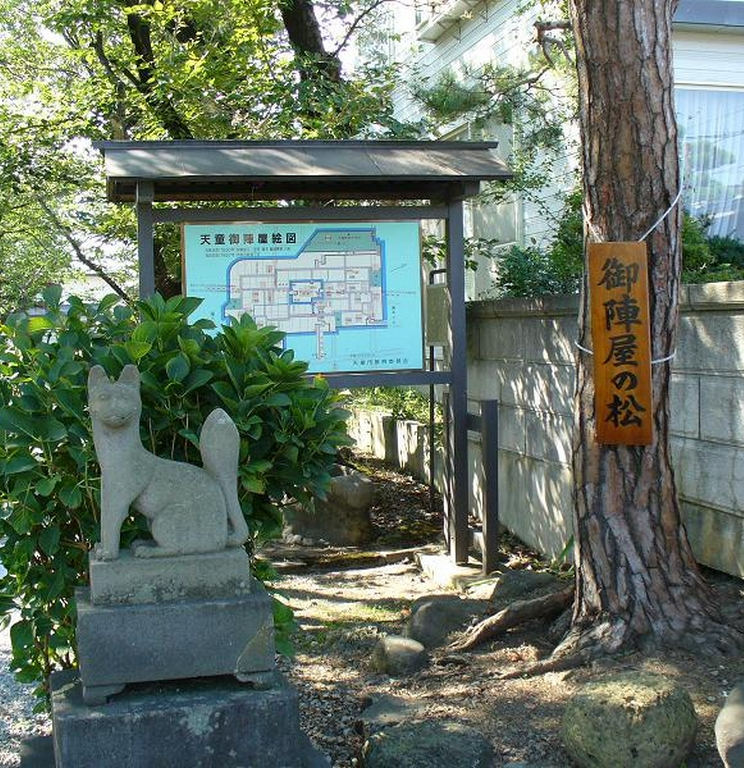 Site of Tendō Jin'ya, on grounds of Kitaro Inari Jinja, Tendō, Yamagata.